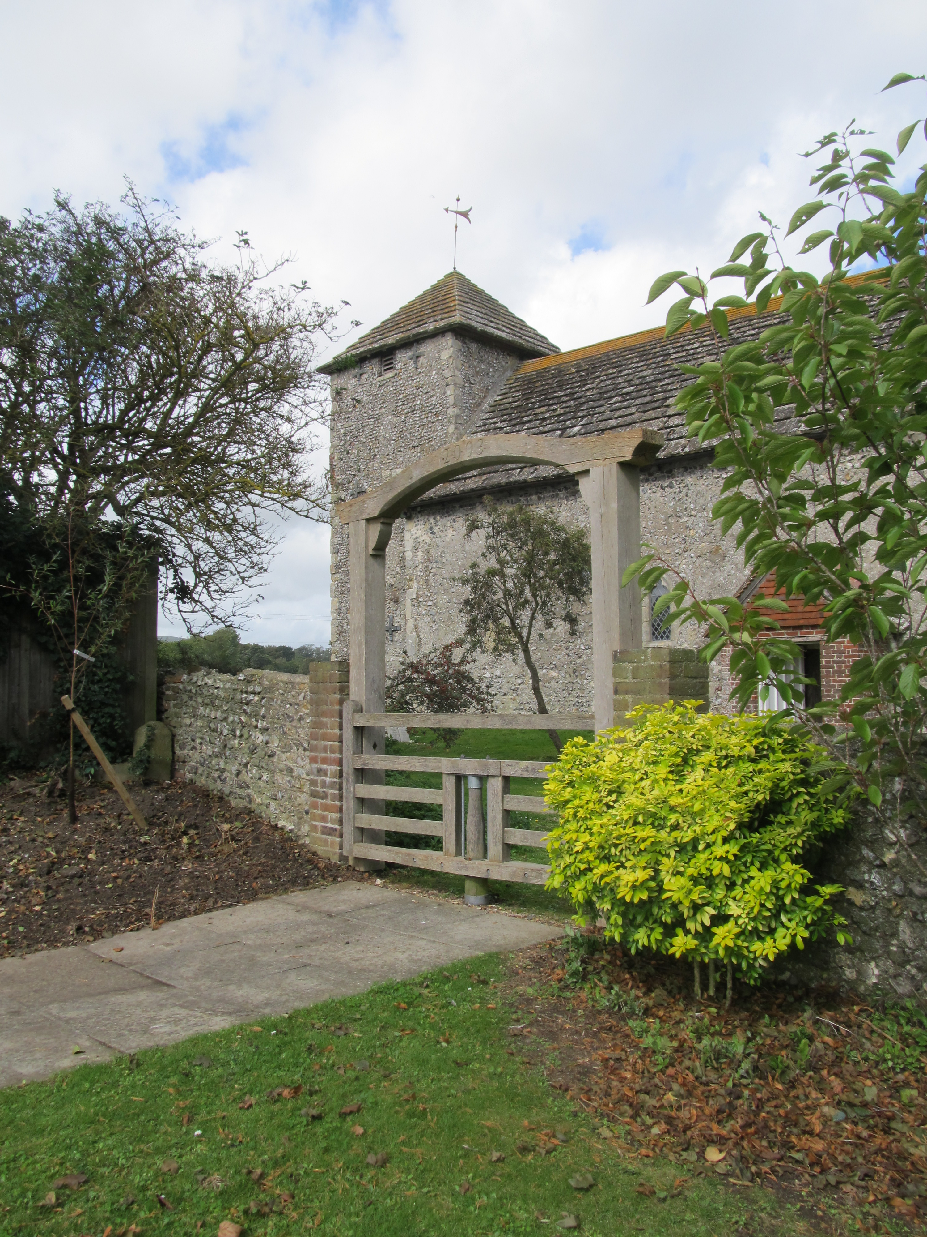 Tapsel gate dating from 2003 at St Botolph's church, Botolphs, West Sussex, England